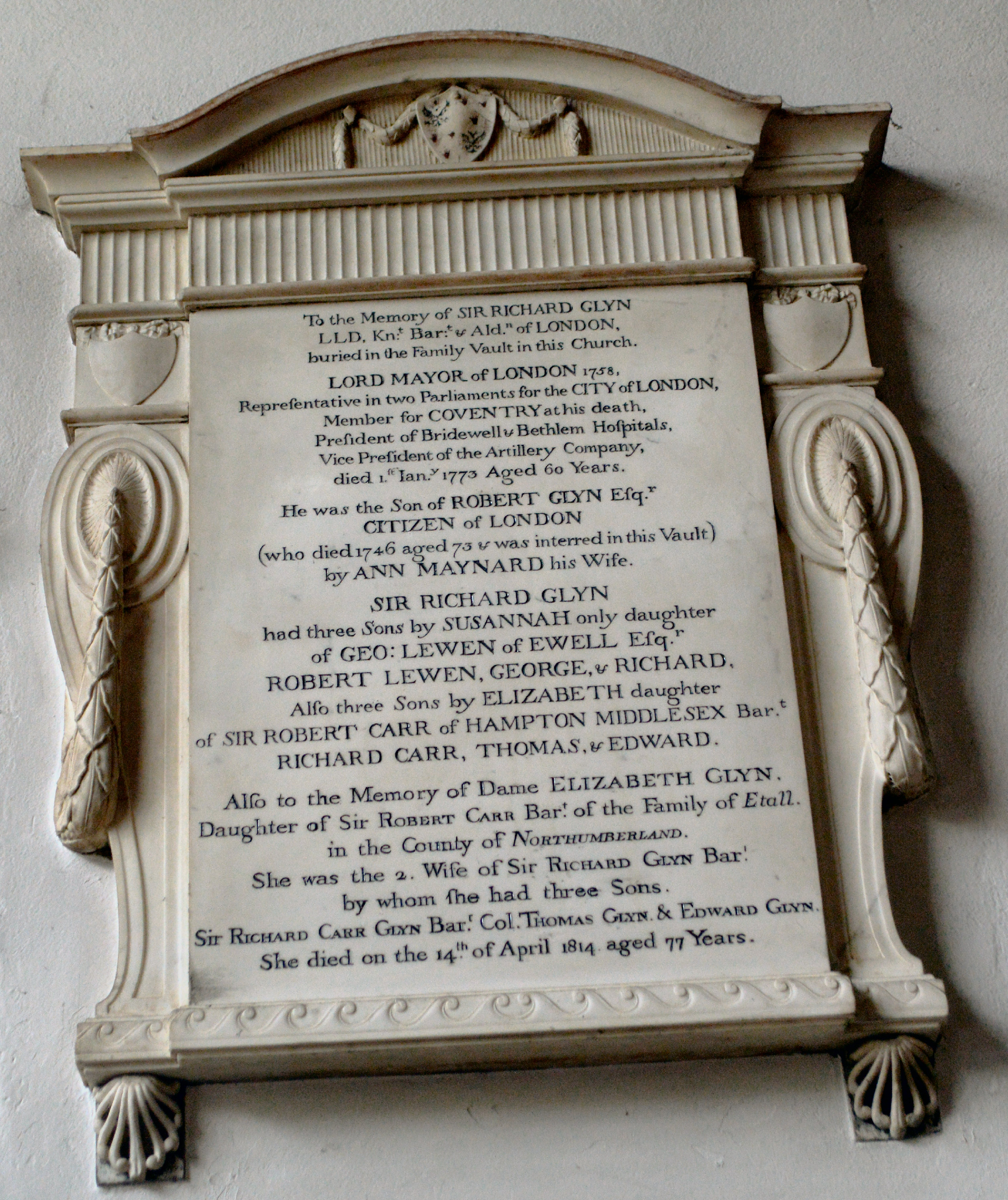 St Mary's Church, Ewell, Richard Glyn memorial